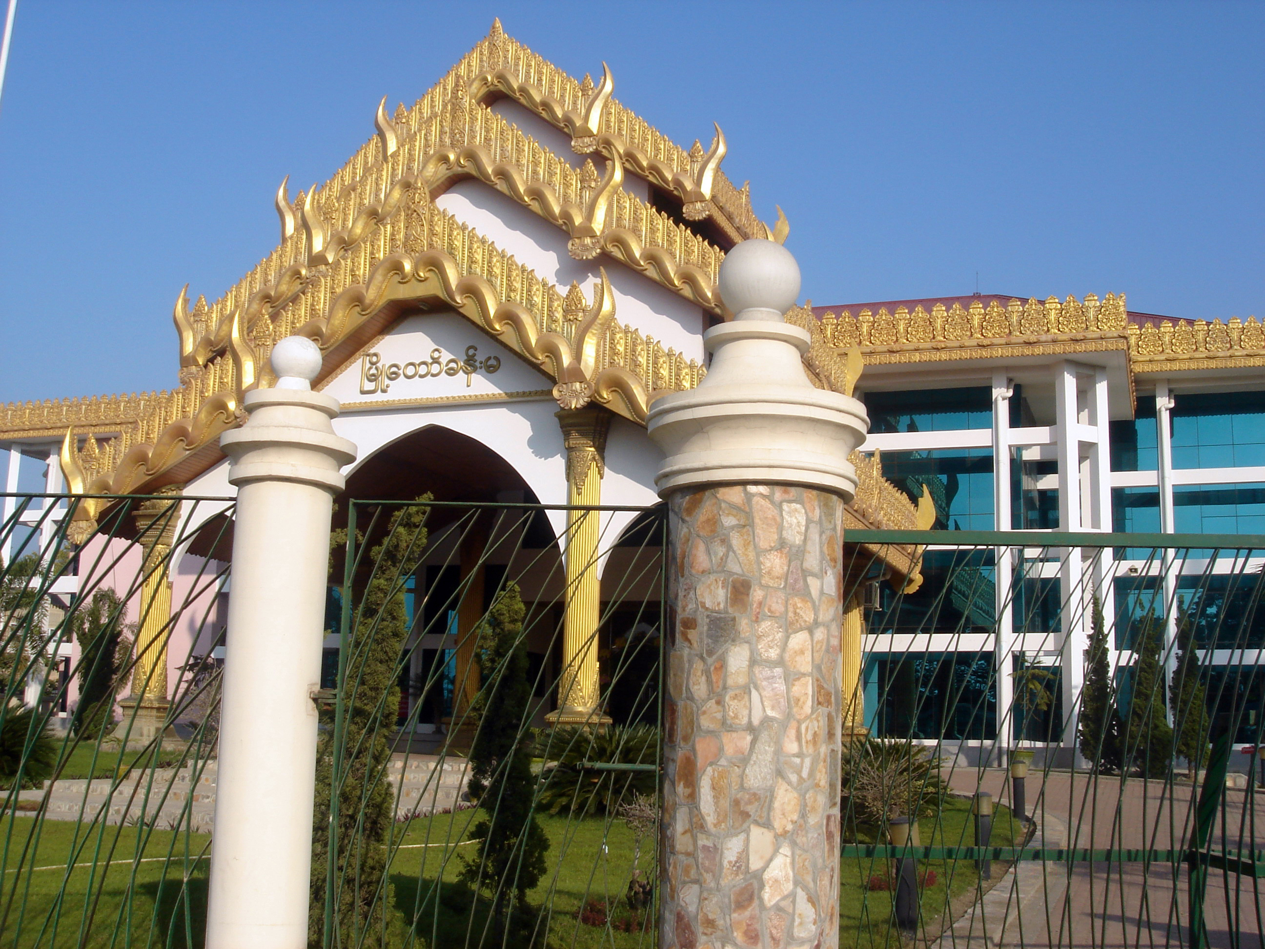 Kyaukse, Kyaukse Township, Kyaukse District, Mandalay Division, Myanmar Photo of Kyaukse City Hall